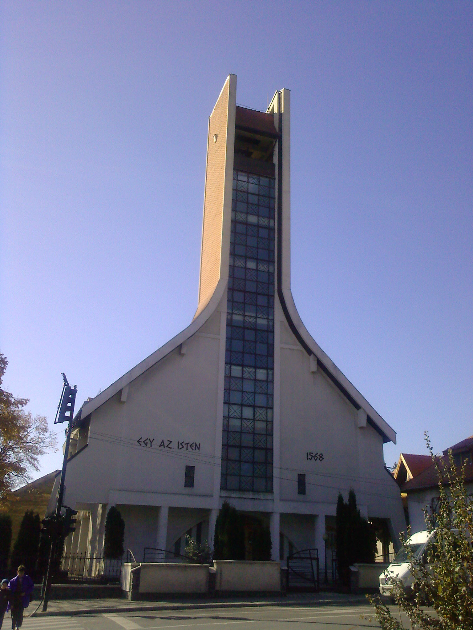 Covasna County, Sf. Gheorghe. The unitarian Church